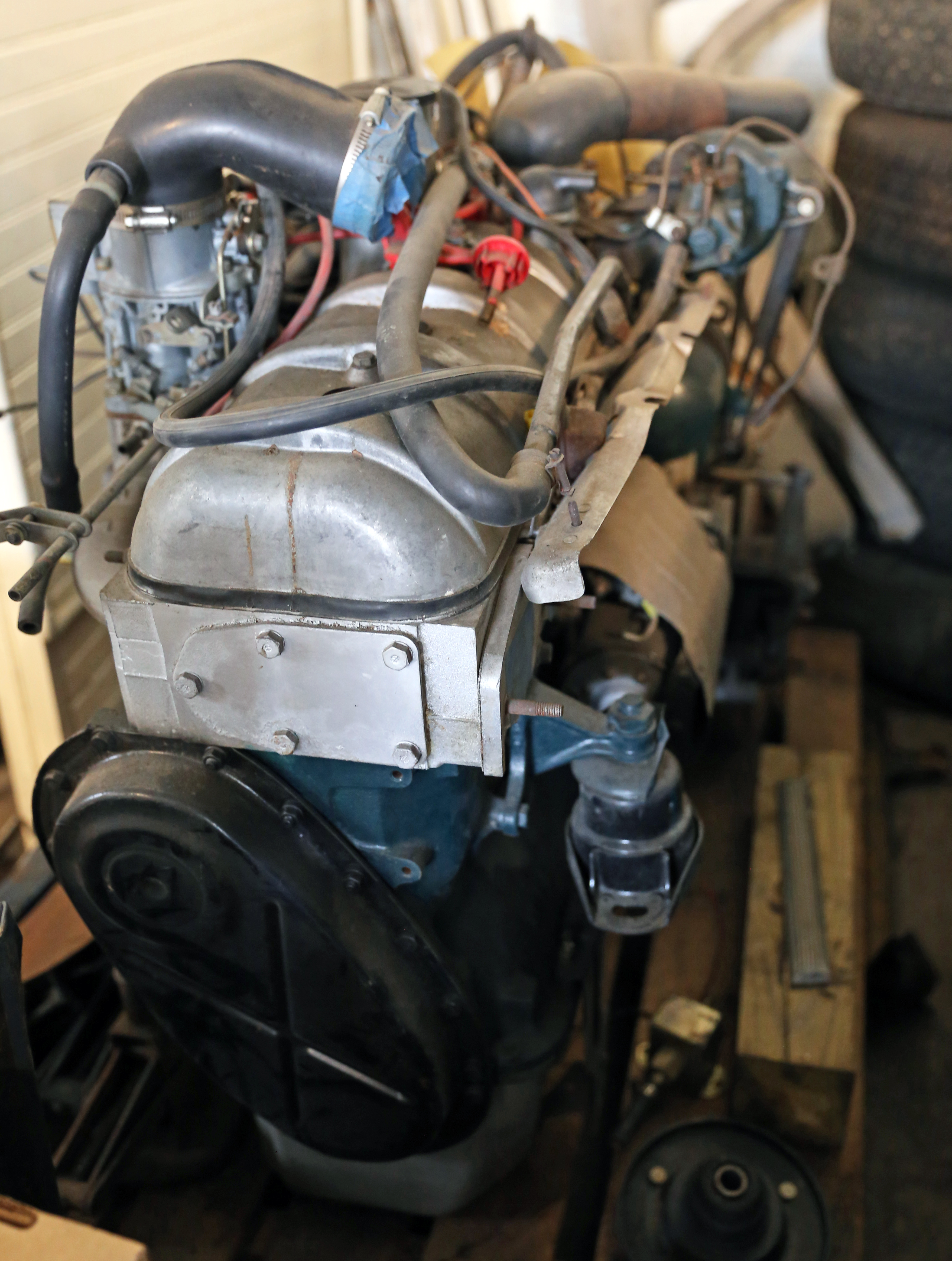 A Citroën DS21 engine, seen from the rear.